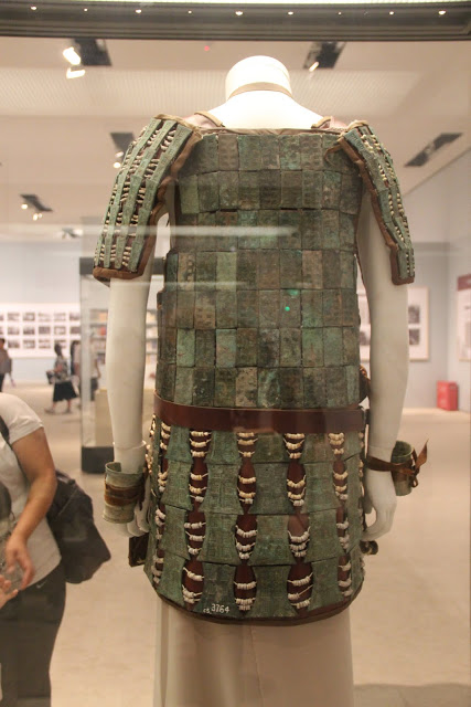 Temporary exhibit at National Museum, Beijing: Bronze Armor & Other National Treasures.